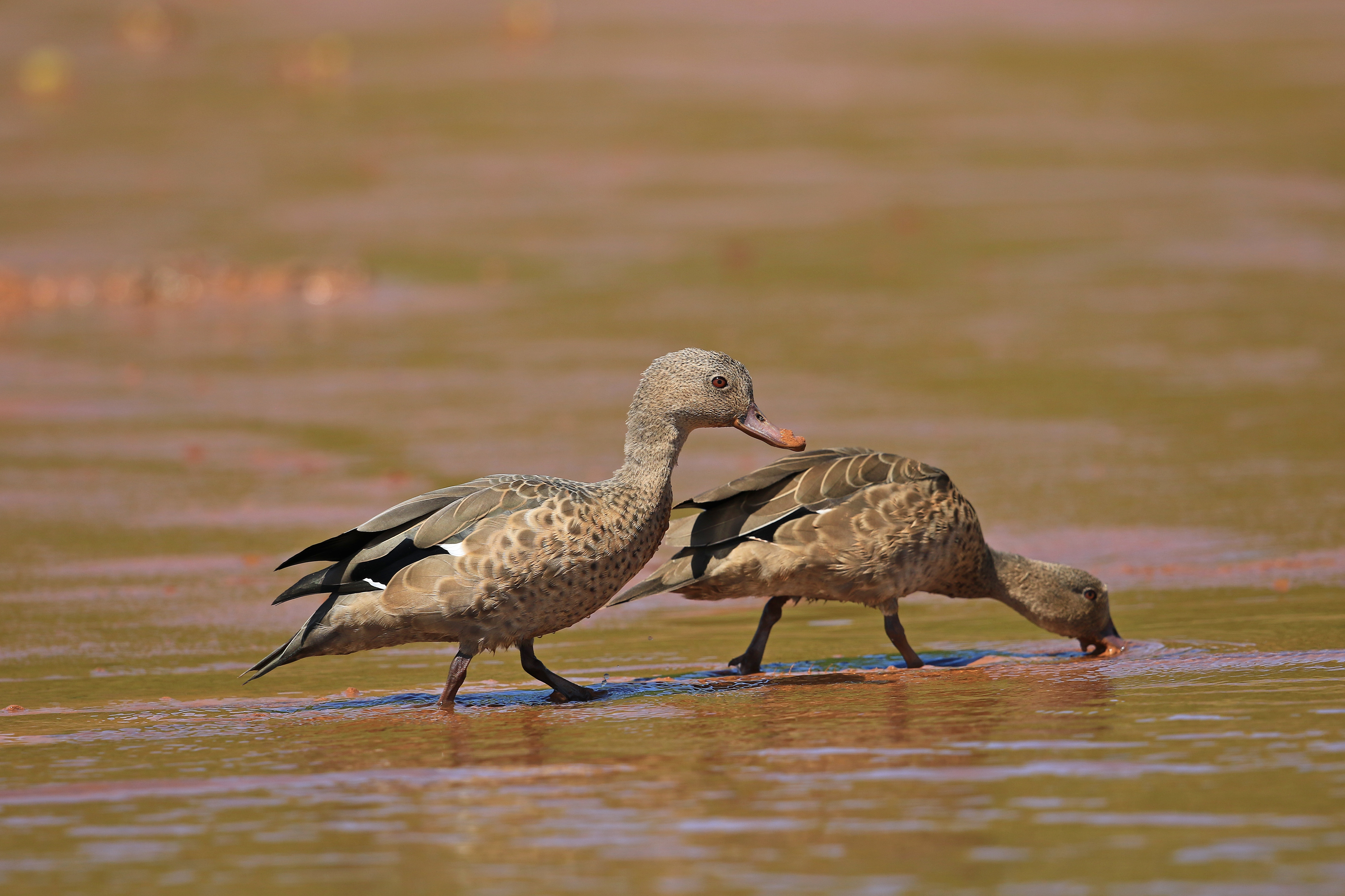 Pair of Bernier's Teal (Anas bernieri) feeding. This image was taken in Madagascar after travelling by boat for 3 hrs we located the teal.